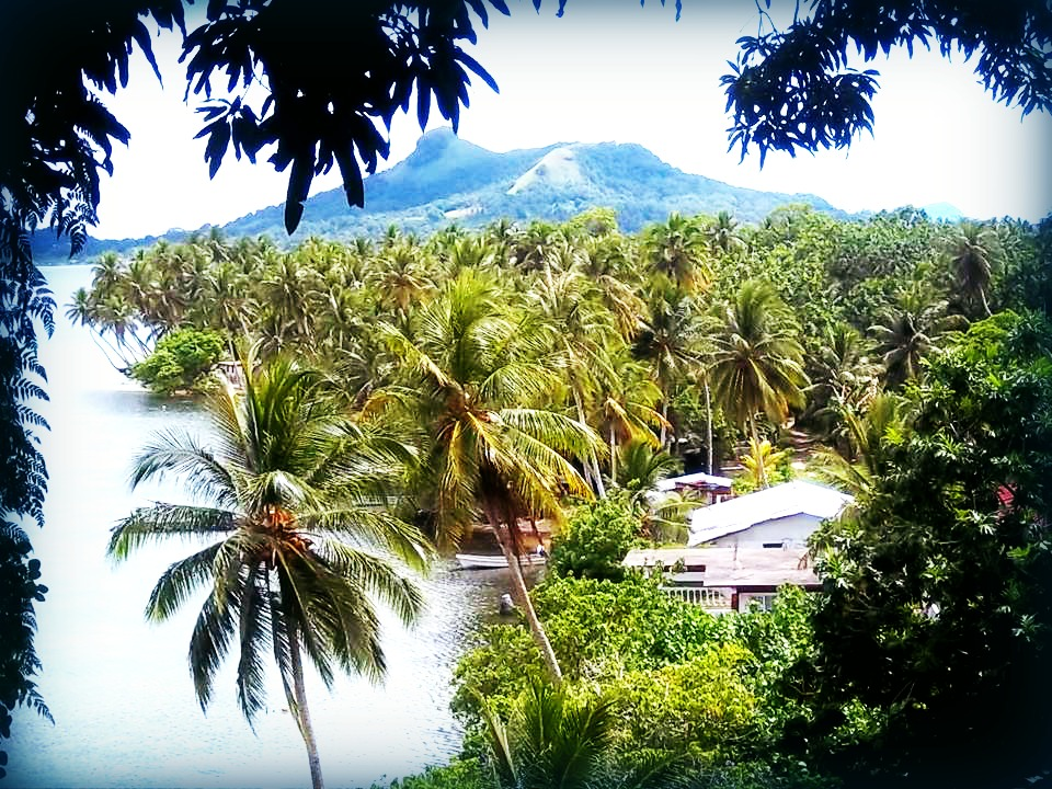 Tonnachau Mountain, Iras Moen This Photo was taken from the Neigbor Island called Fono. Photo Shoot by Daironnie John, Editor Leilani Noboru